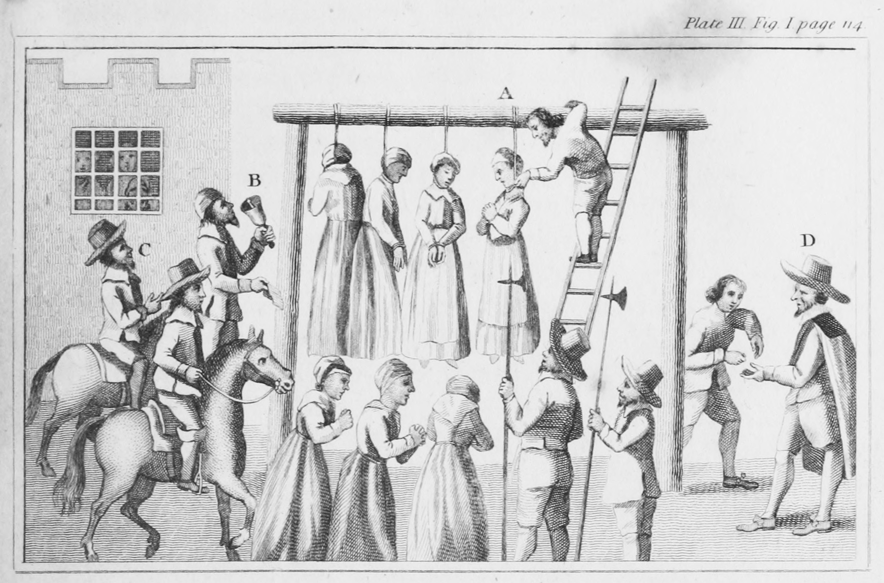 from "England's grievance discovered, in relation to the coal trade," (1655, reprint 1796), Plate III Figure I page 114